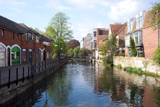 The River Avon and The Maltings, Salisbury.